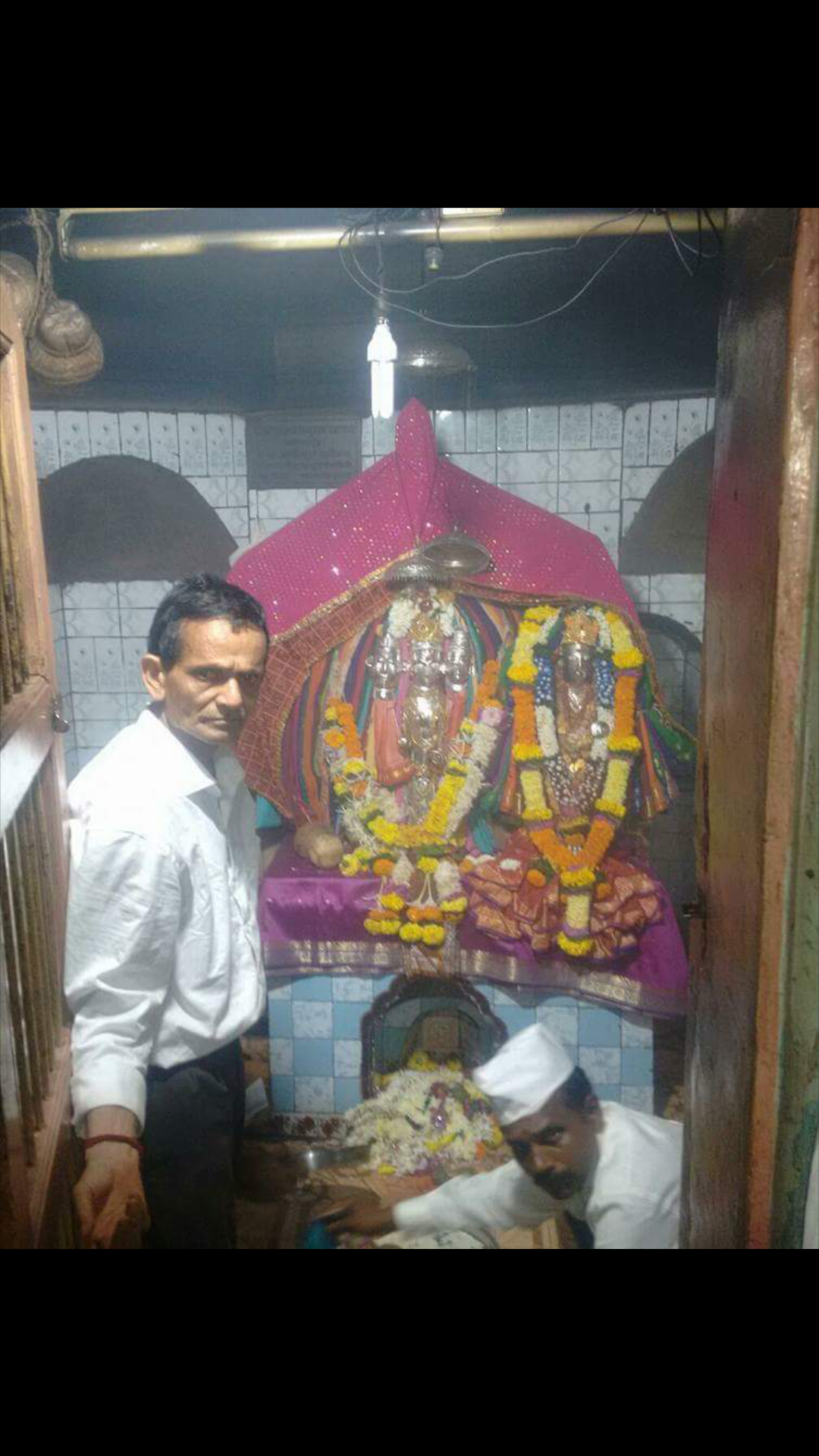 Aryadurga devi, devihasol, Rajapur